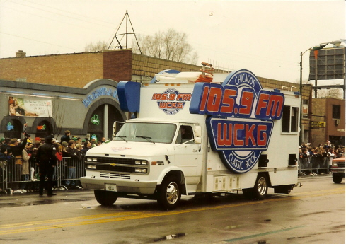 Photograph of WCKG-FM Radio Station "Rock 'N Roller" mobile broadcast studio driving in the Chicago South Side Irish Parade on Western Avenue.